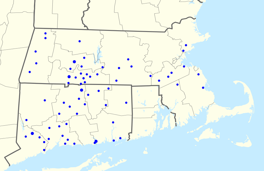 A map listing all the locations of the Big Y supermarket chain